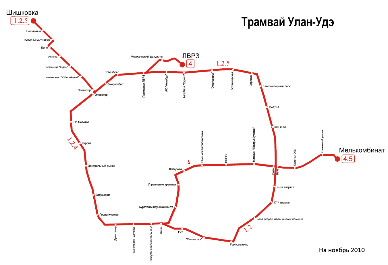 An unofficial map of the Ulan-Ude tram as of november, 2010